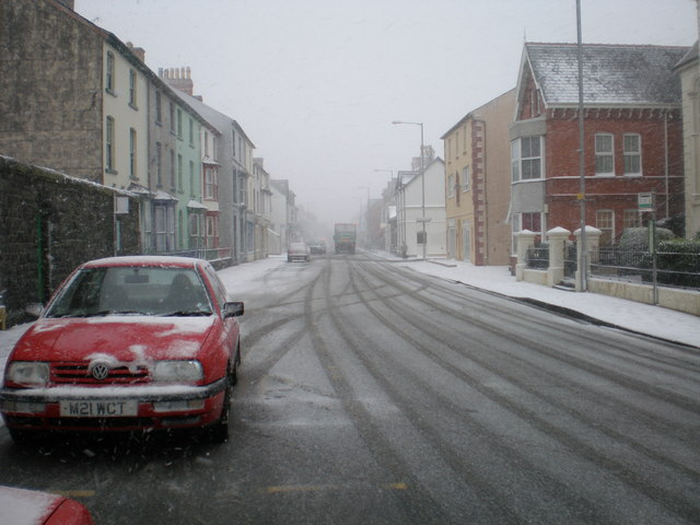 Tywyn High St during the blizzard. The main road linking Tywyn and Bryncrug was quickly closed due to drifting snow.